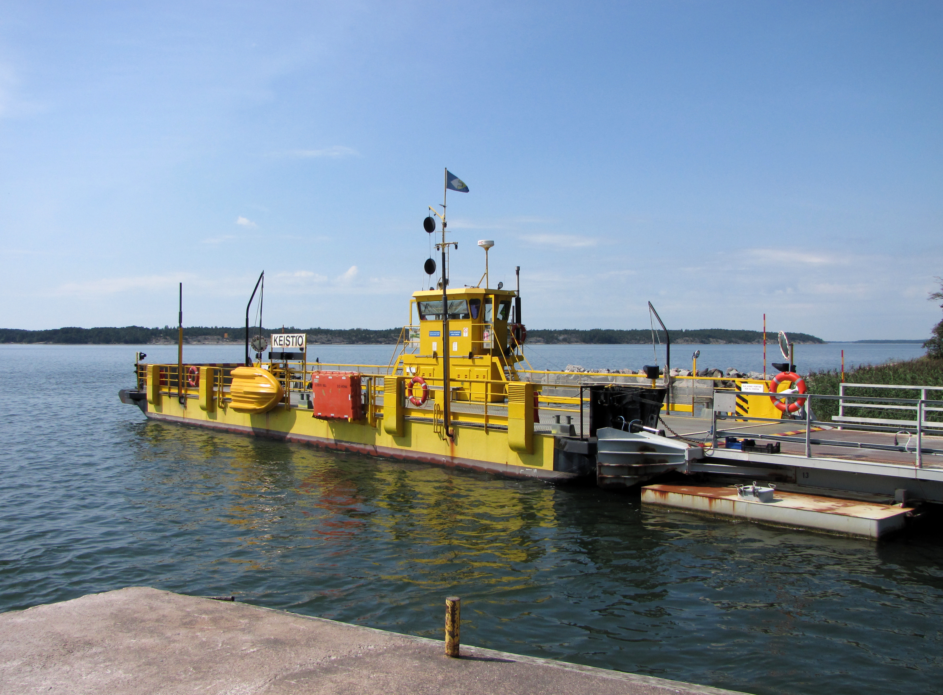 Keistiö cable ferry in Pargas, Finland